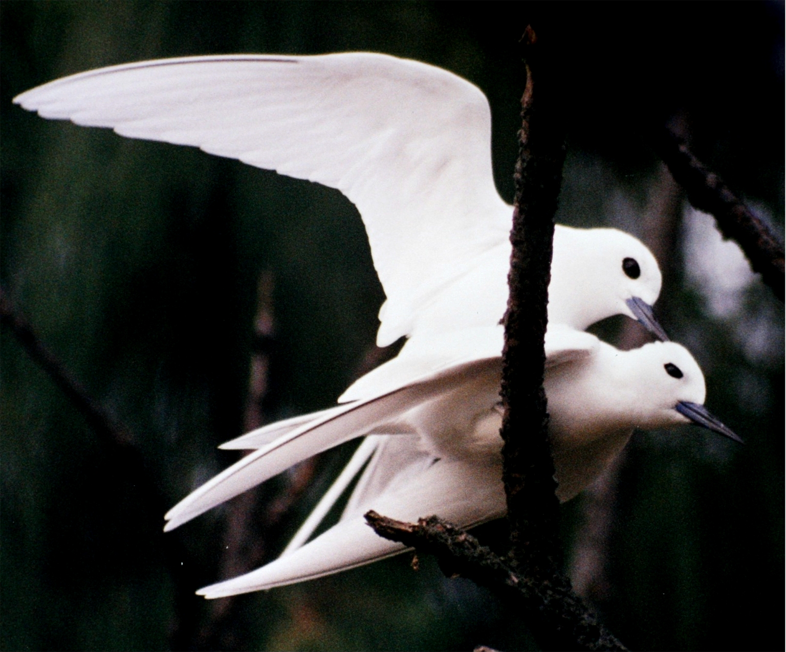 Mating Fairy Terns at Midway Atoll Photograped by Brocken Inaglory